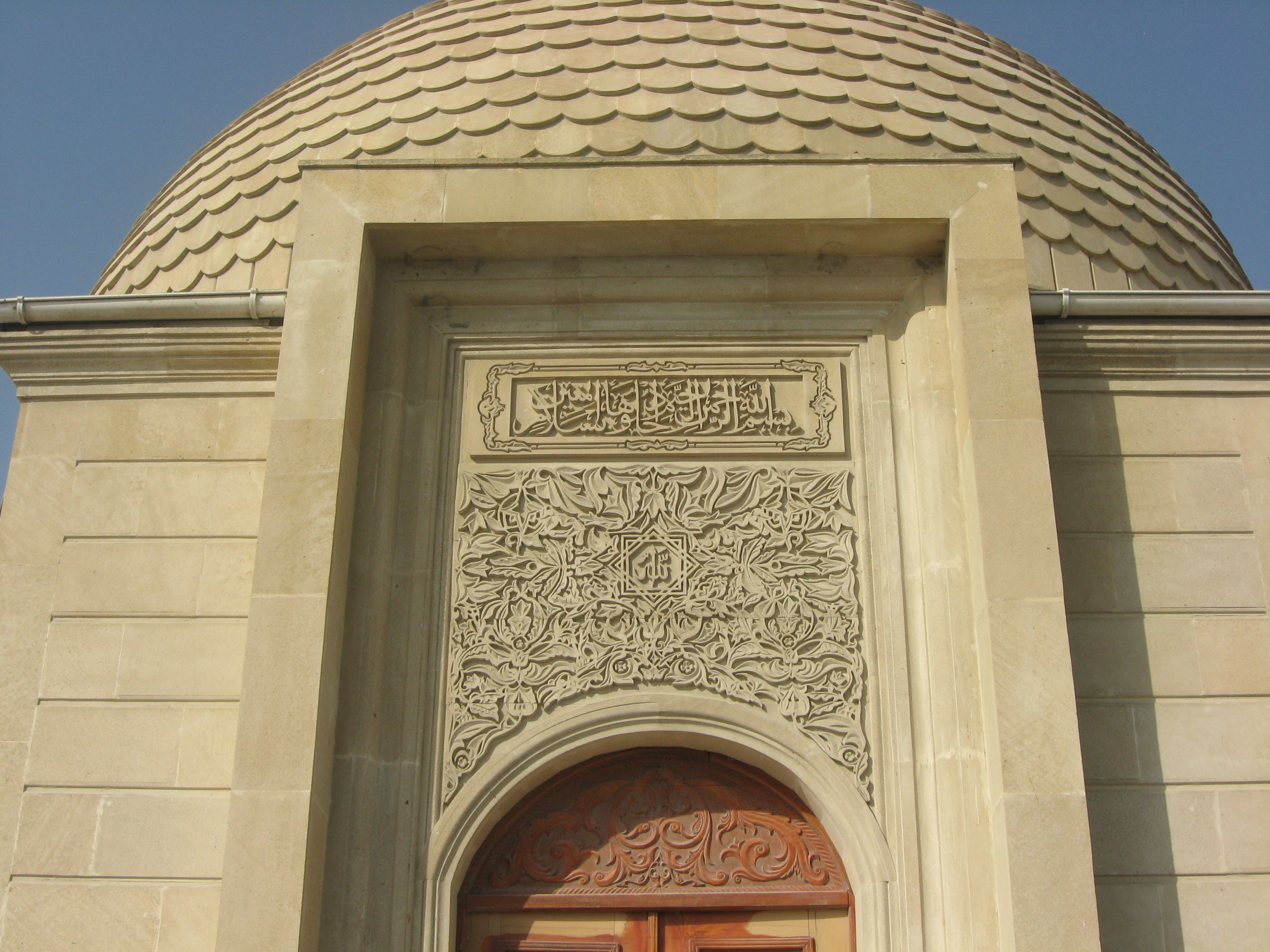 Door of Holy place - mausoleum of Hidir Zinja near Beshbarmag mountain, Azerbaijan (Siyazan rayon)